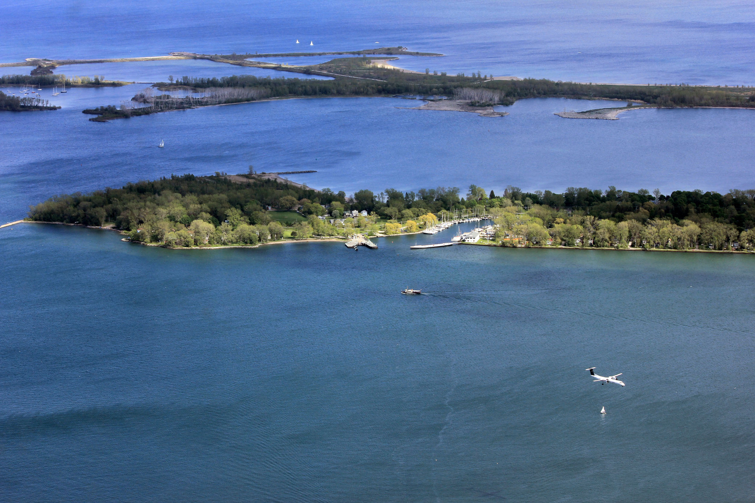 Pictures and view from Canada's largest city and the capital of Ontario Islands in Lake Ontario